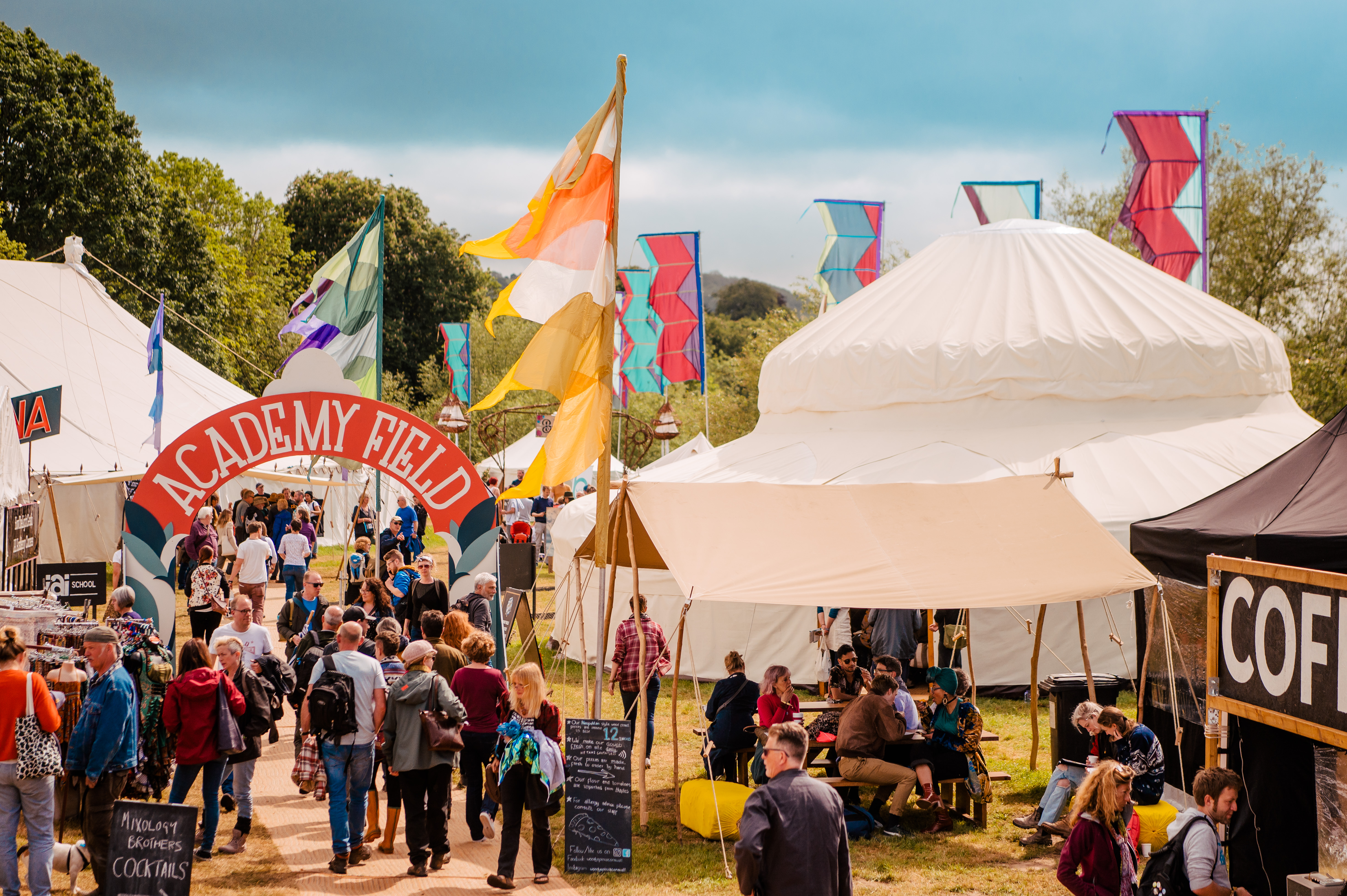 Image from HowTheLightGetsIn Festival